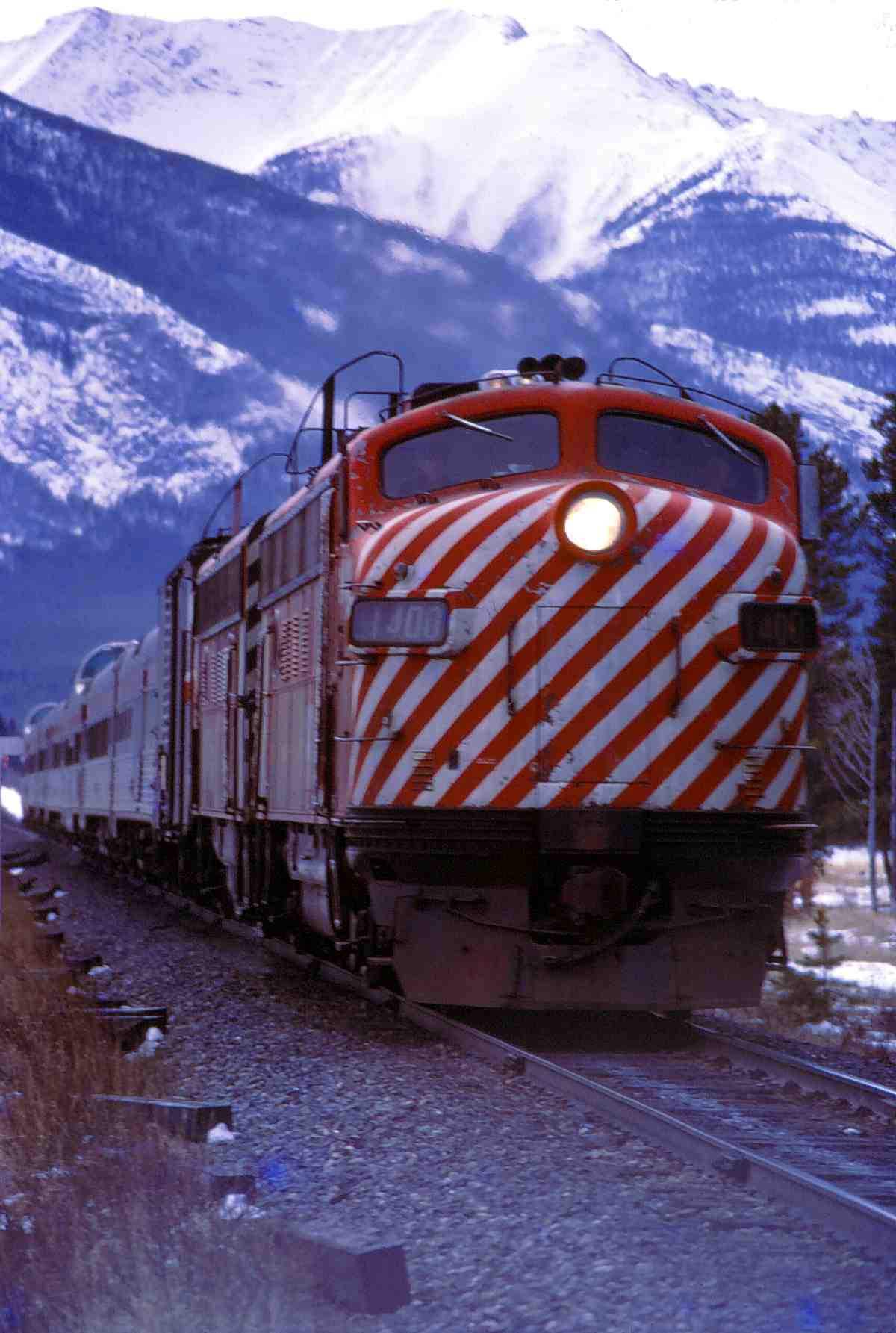 Canadian Pacific passenger train heading east towards Calgary